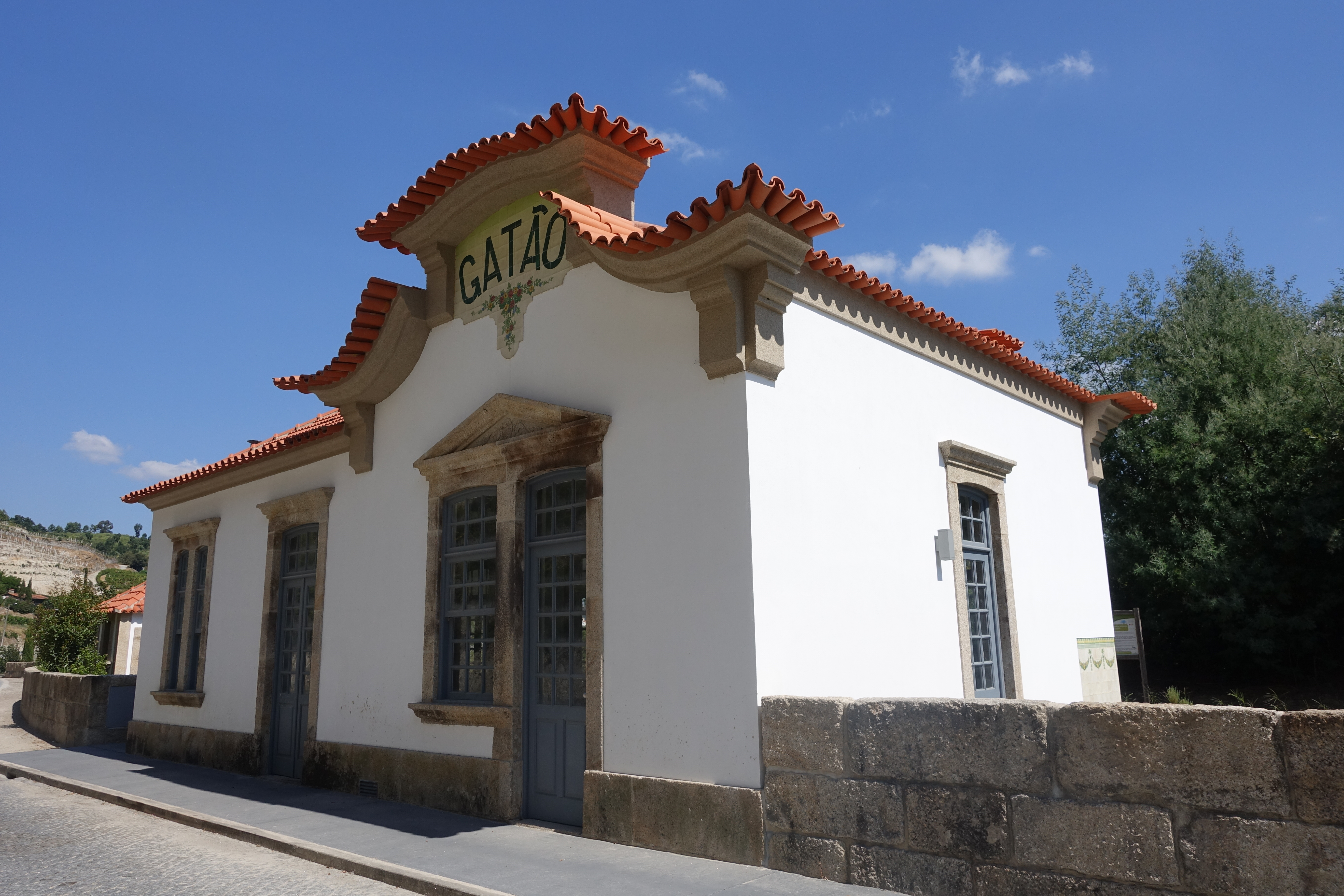 Ecopista do Tâmega, Portugal.